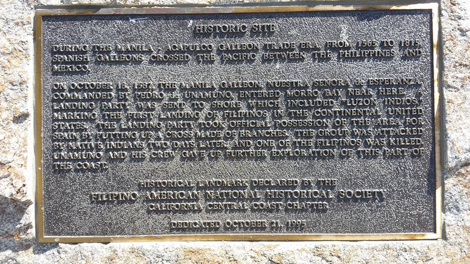 Dedicated on 21 October 1995, it was placed by the Filipino American National Historic Society California Central Coast Chapter commemorating the 18 October 1587 landing by crew of the Nuestra Senora de Esperanza. Located in Coleman Park, on the north part of Morro Bay.